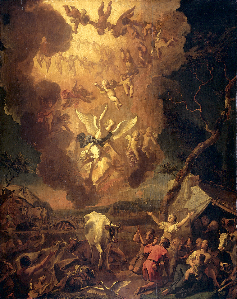 Pendant of File:Adoration of the shepherds 1663 Abraham Hondius.jpg